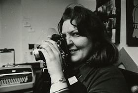 April 5, 1976 photo of White House Photo Office photo editor Sandra Eisert holding a camera in the White House Photo Office.